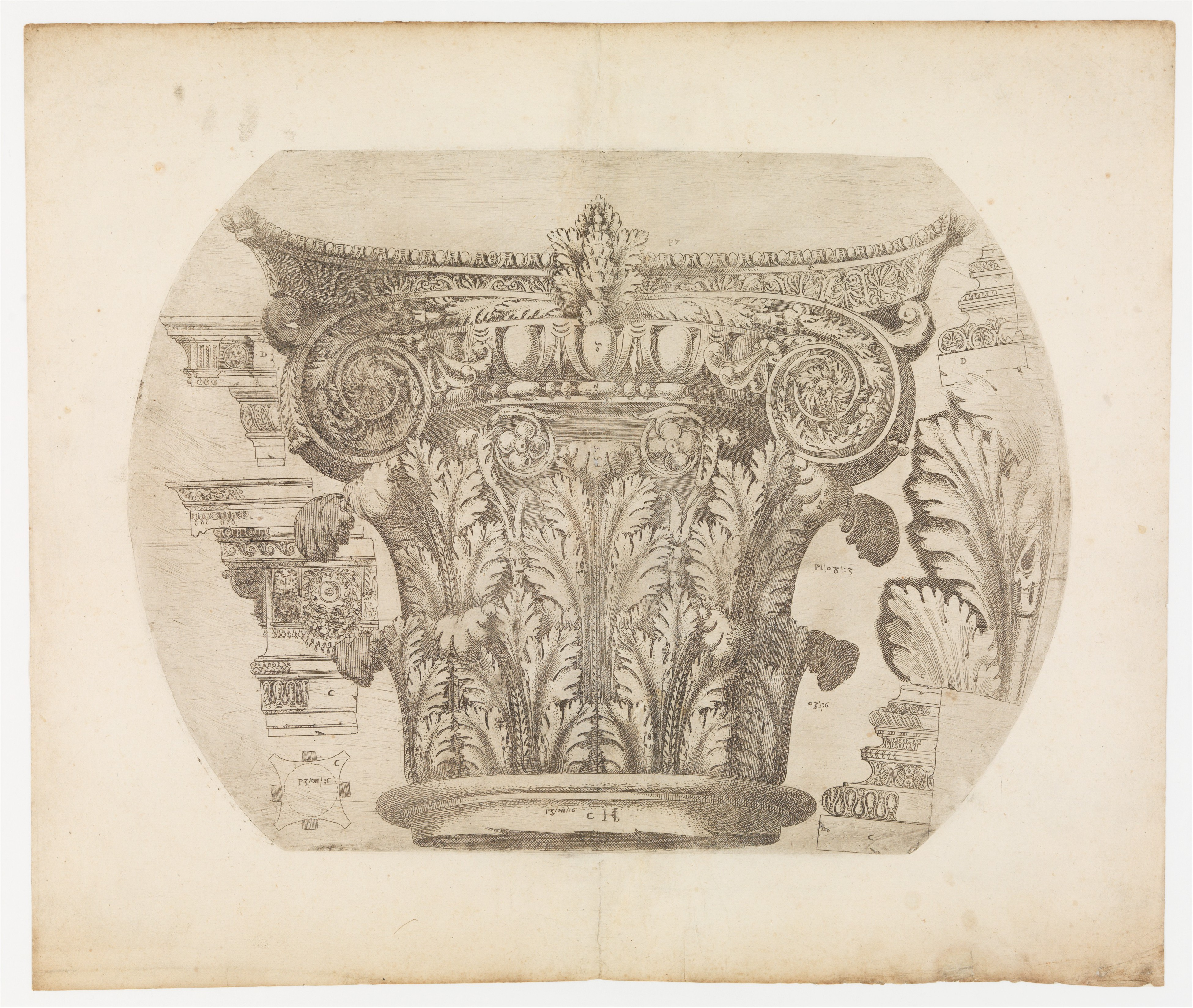 Print Collection Ornament & Architecture; Prints/Ornament & Architecture